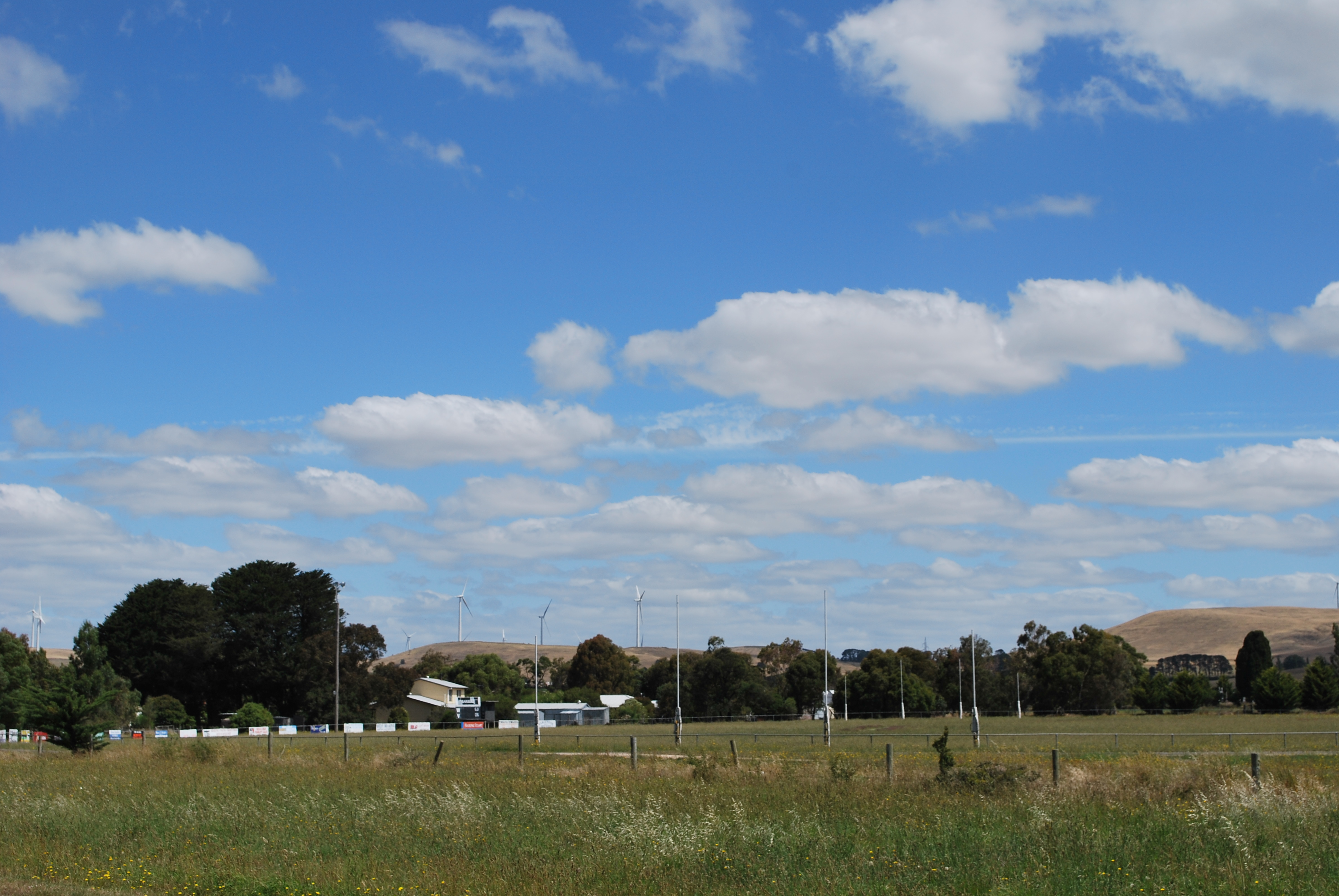 Recreation reserve at Waubra, Victoria. Part of the Waubra Wind Farm can be seen in the background.